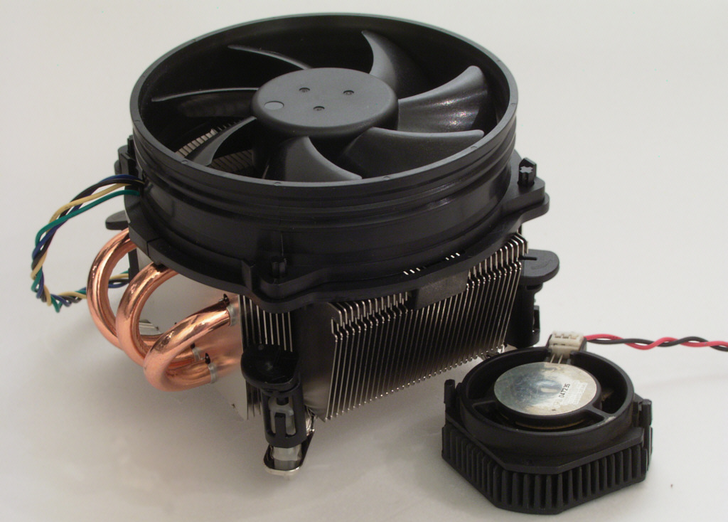 Cooler for a Socket 775 CPU. Hybrid design with a conventional fan arrangement, copper base, three heatpipes and aluminum fins. In the foreground for size comparison, a cooler for Intel Pentium 1 MMX (Socket 7)